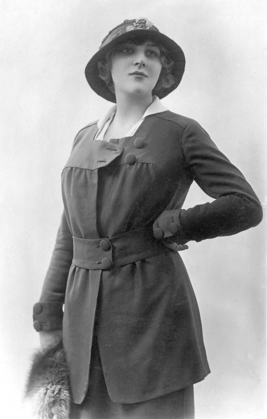 Postcard published by Beagles' postcards, featuring a photograph of actress Isobel Elsom.